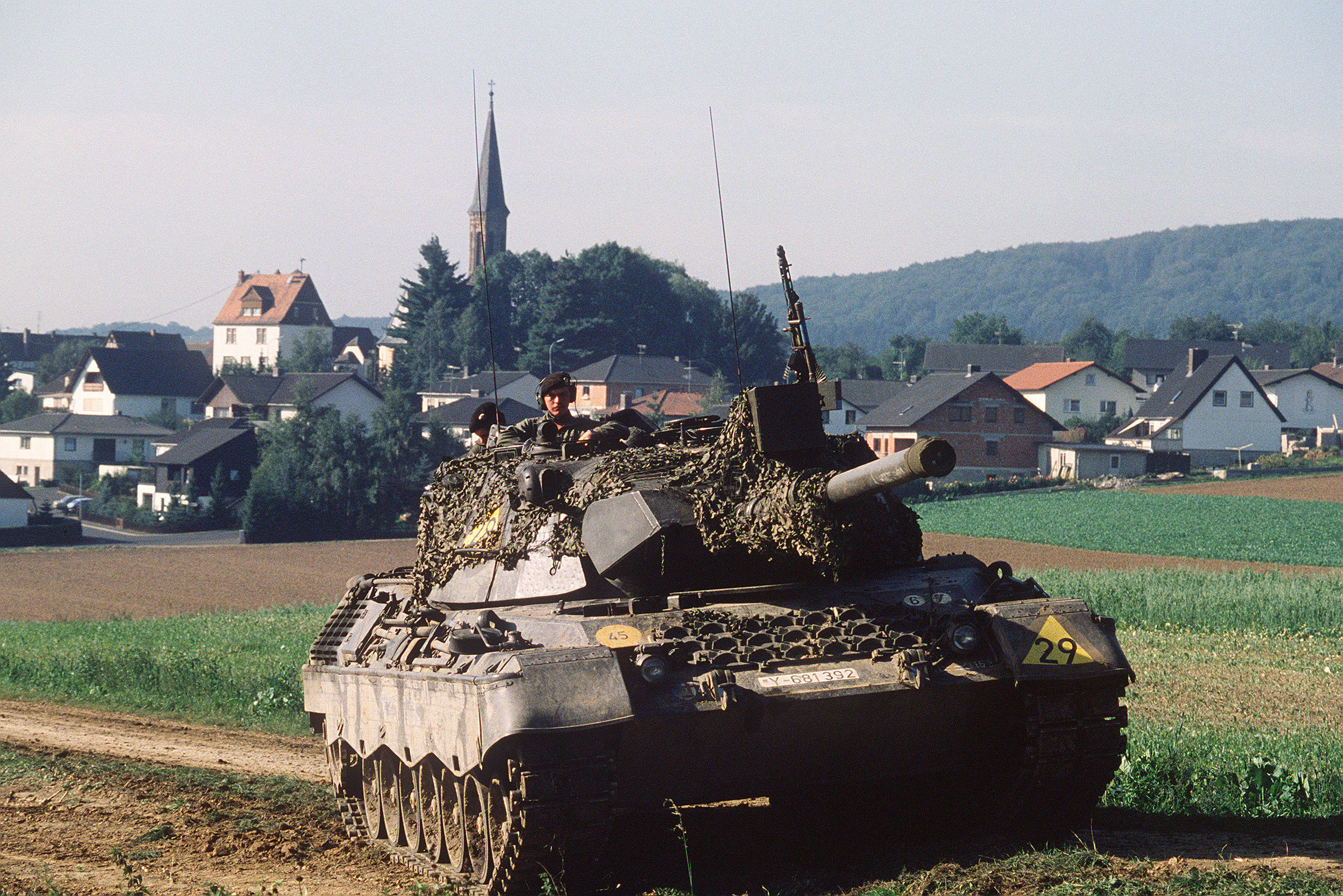 A Federal German Army Leopard 1 main battle tank of the 1st Platoon, 4th Company, 153rd Panzers, is parked in a field during the Confident Enterprise phase of REFORGER/AUTUMN FORGE '83 near Effolderbach (Hesse).